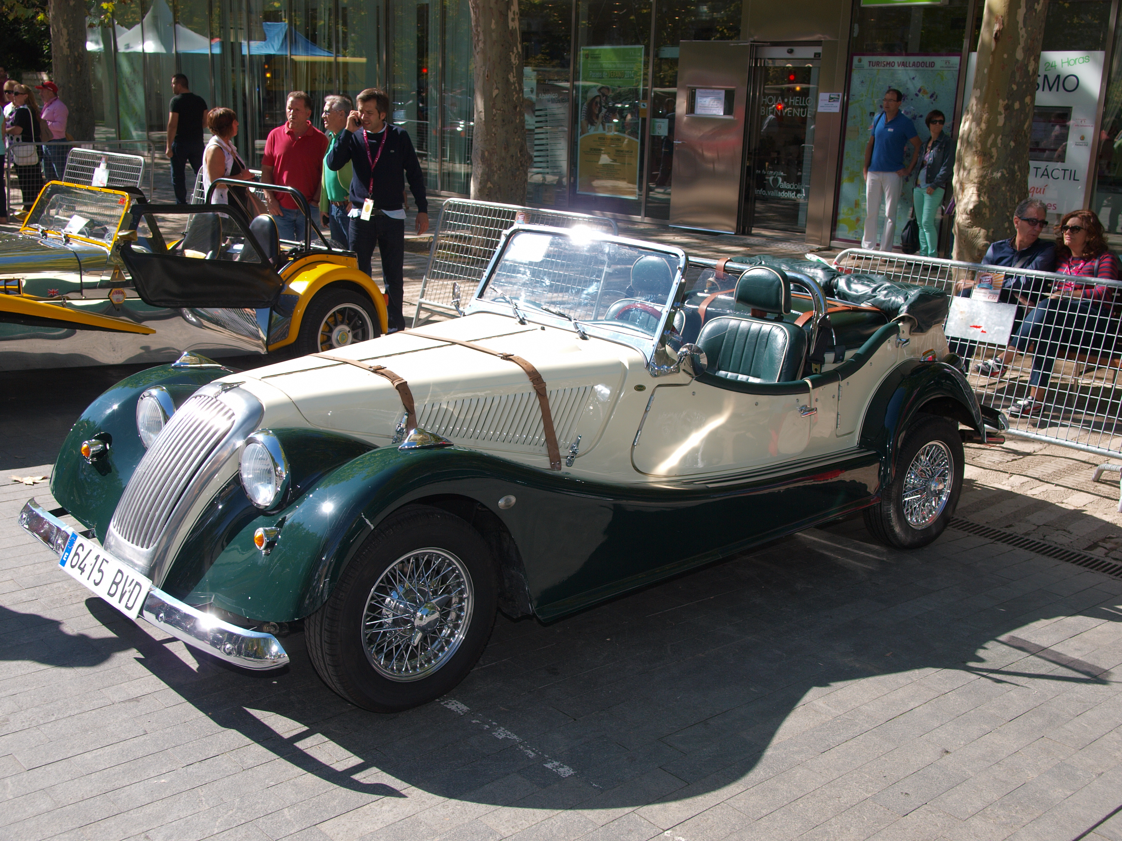 Hurtan T2+2 (1984) at exhibition in the Classic Motor Vintage (Valladolid, Spain, September 2014)